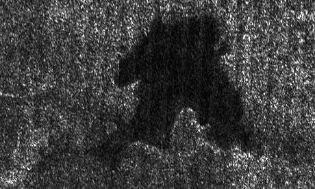 Original Caption Released with Image: This lake is part of a larger image taken by the Cassini radar instrument during a flyby of Saturn's moon Titan on Sept. 23, 2006. It shows clear shorelines that are reminiscent of terrestrial lakes. With Titan's colder temperatures and hydrocarbon-rich atmosphere, however, the lakes likely contain a combination of methane and ethane, not water. Centered near 74 degrees north, 65 degrees west longitude, this lake is roughly 20 kilometers by 25 kilometers (12 to 16 miles) across. It features several narrow or angular bays, including a broad peninsula that on Earth would be evidence that the surrounding terrain is higher and confines the liquid. Broader bays, such as the one seen at right, might result when the terrain is gentler, as for example on a beach.